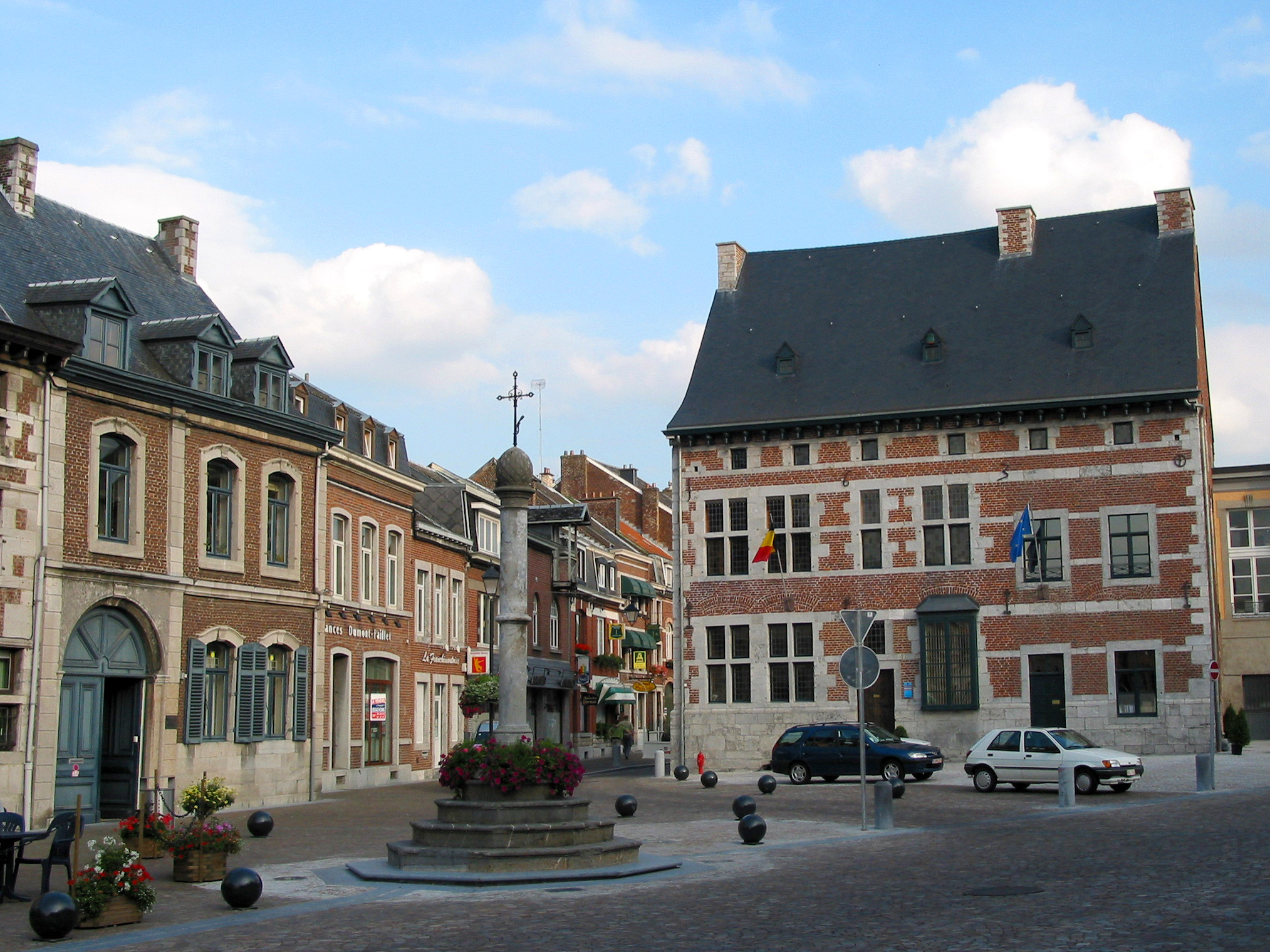 Theux (Belgium), the Perron square with its typical houses (XVII-XVIIIth centuries).